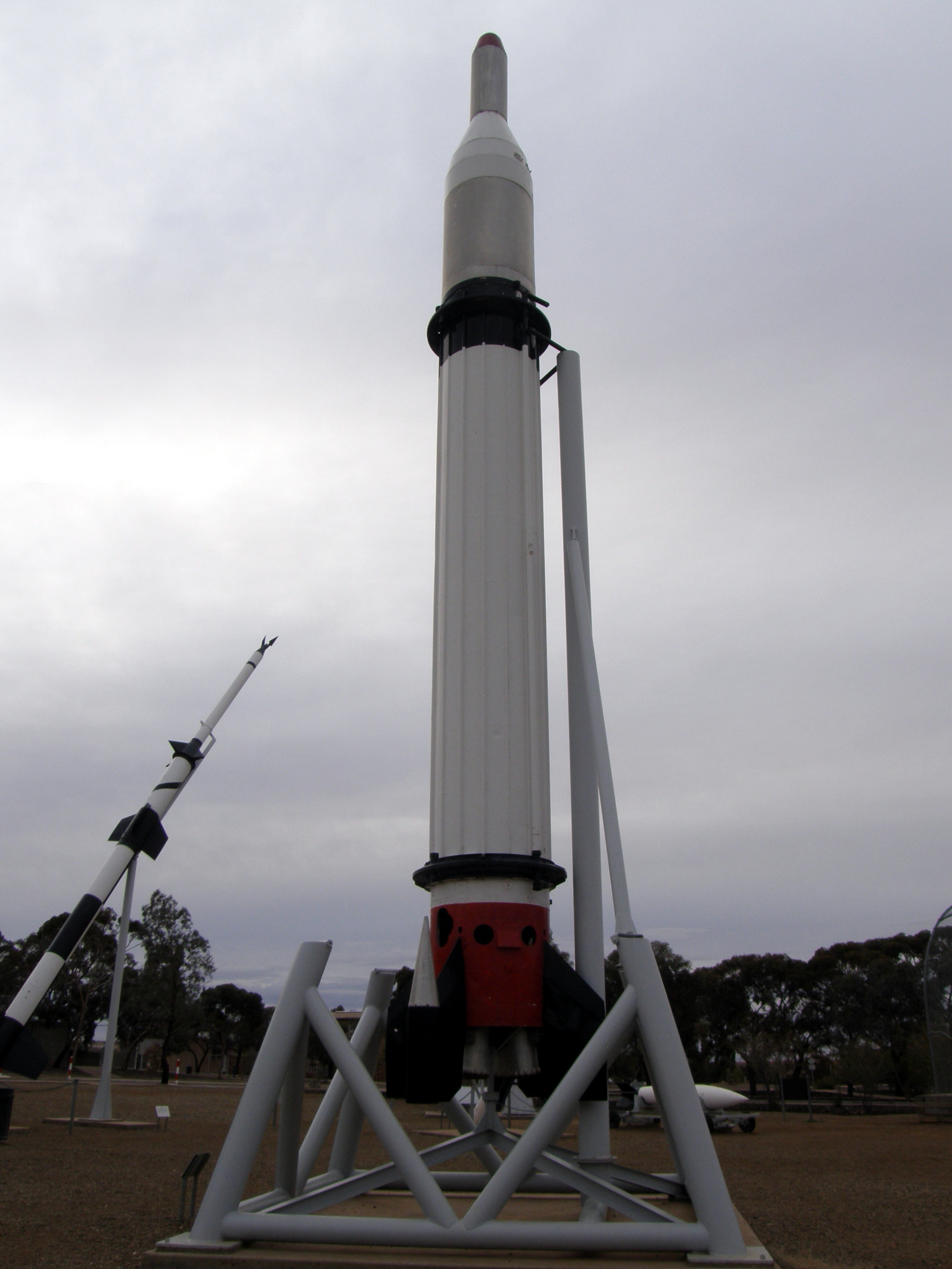 Black Knight rocket on display in Woomera, South Australia